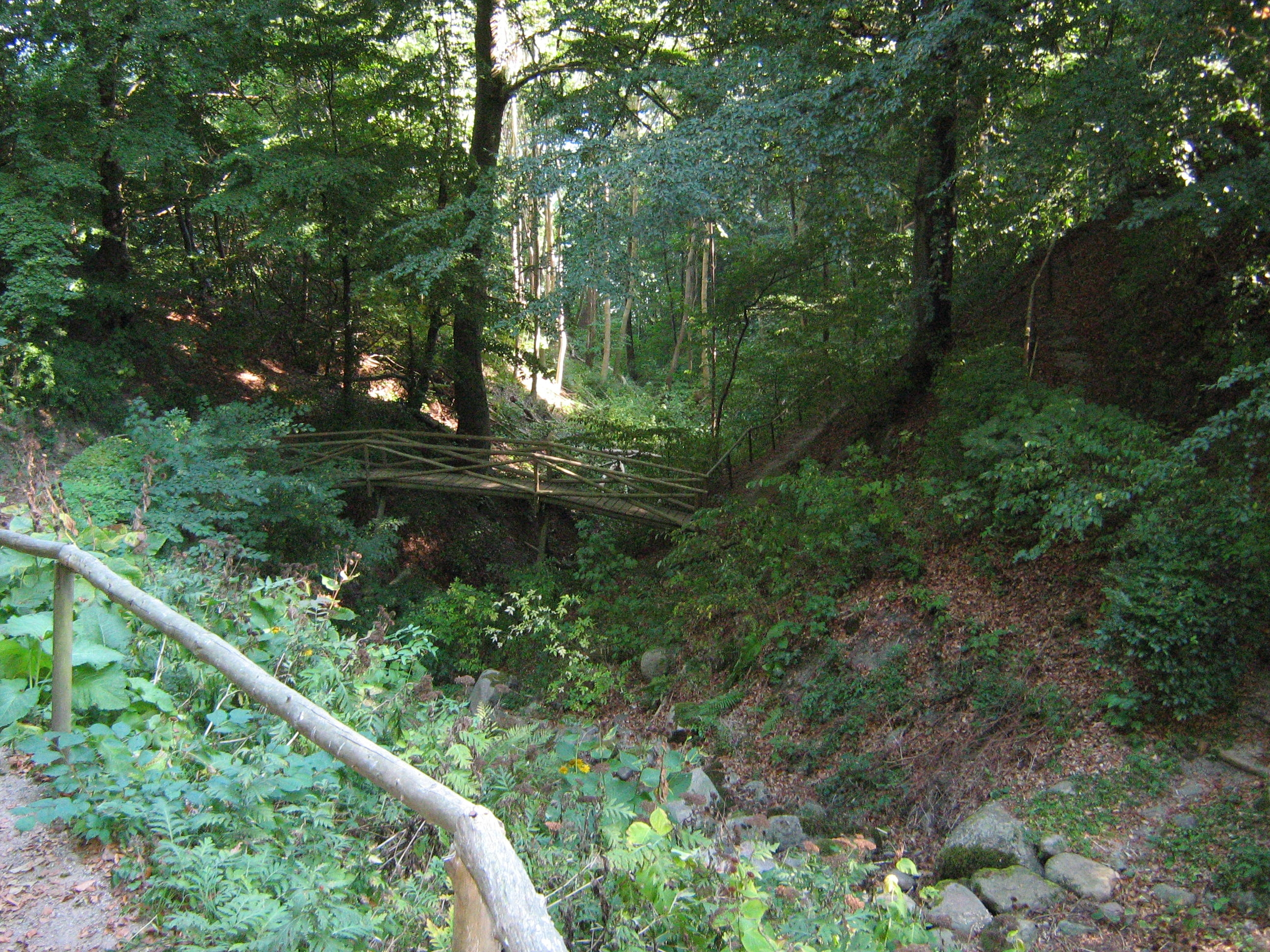 Liselund, Møn, Denmark. The Devil's Ravine with its treacherous steps down to the beach below.